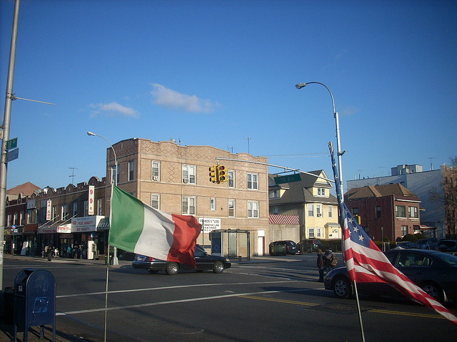 18 Avenue intersecting with Bay Ridge Parkway in Bensonhurst, Brooklyn NY.